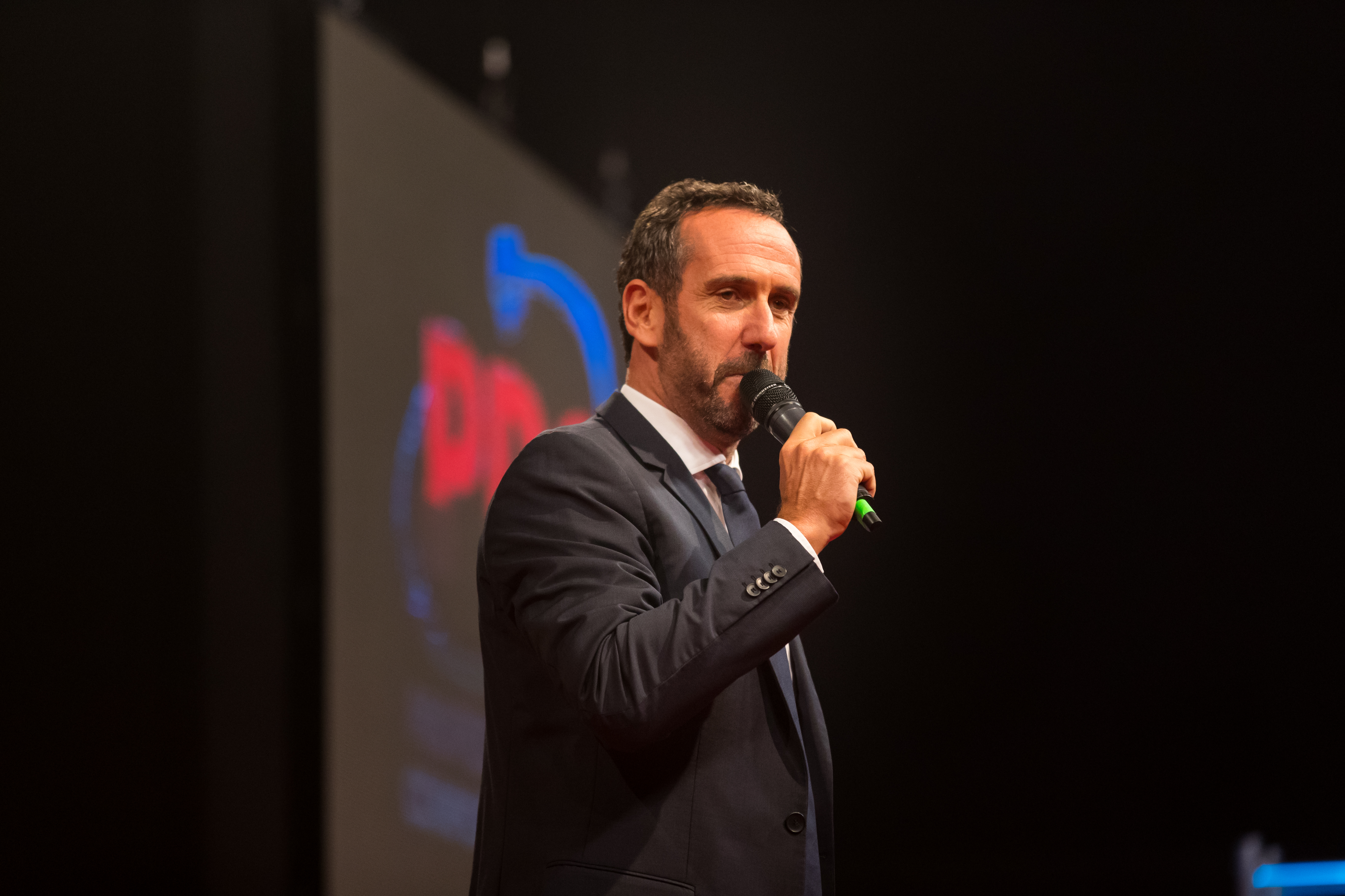 Elmar Paulke during Professional Darts Corporation (PDC), German Darts Grand Prix (GDGP) at Maimarkthalle, Mannheim, Baden-Württemberg, Germany on 2017-09-10, Photo: Sven Mandel